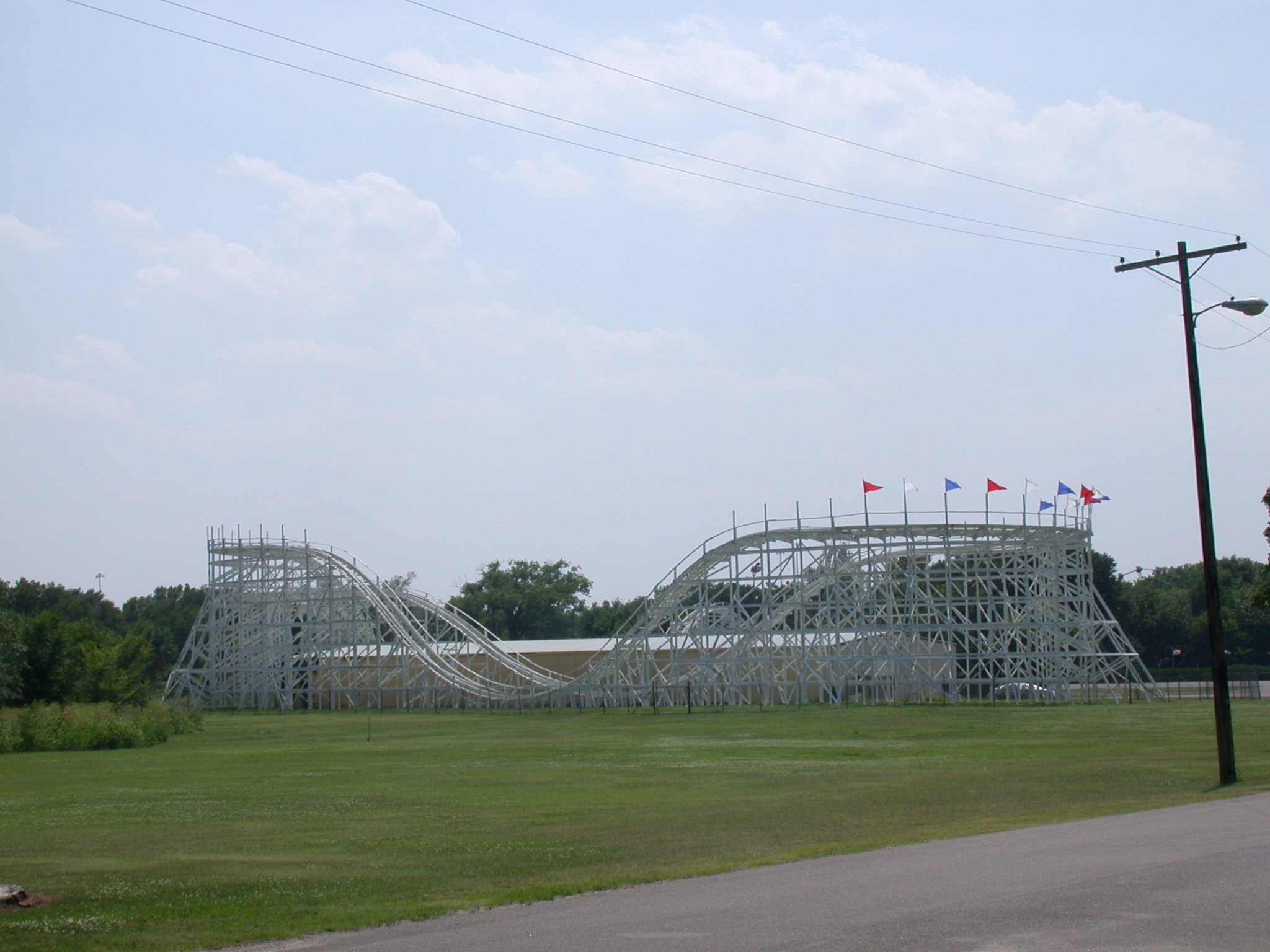 The portion of Joyland's roller coaster that extends out into the parking lot